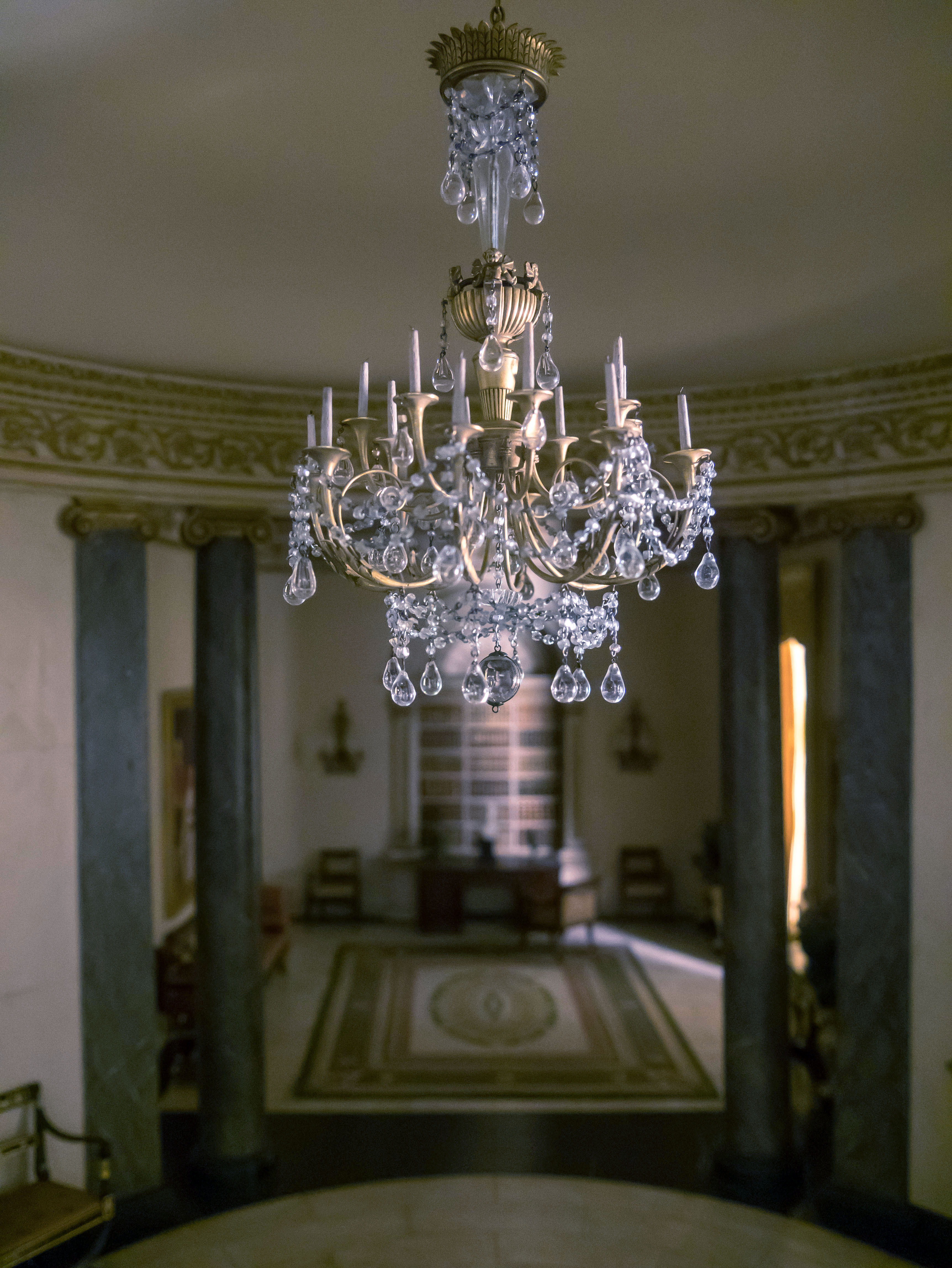 A chandelier and office miniature, part of the Thorne room at the Art Institute of Chicago.